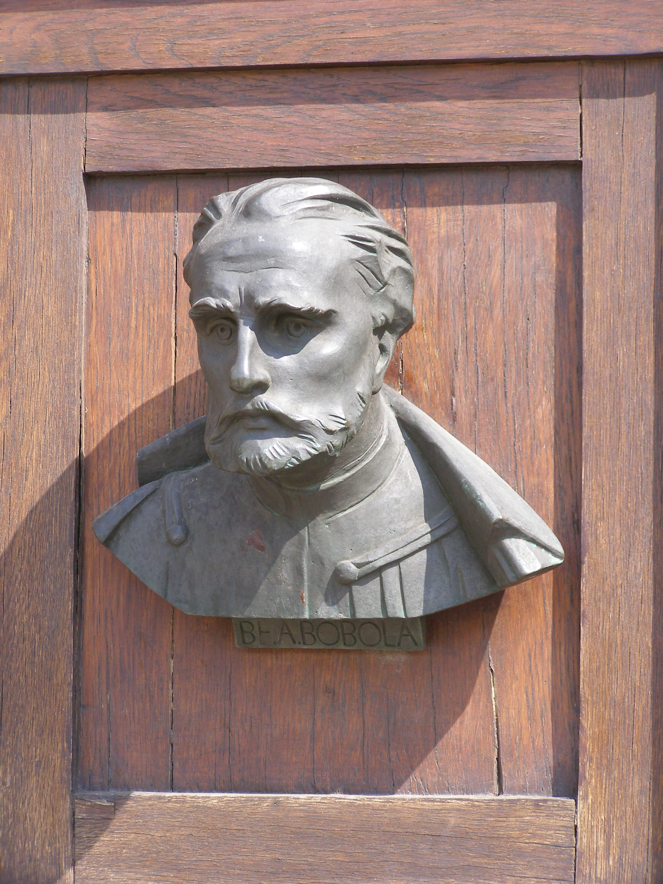 Kraków - bust of St. Andrzej Bobola on the St. Mary's Basilica door